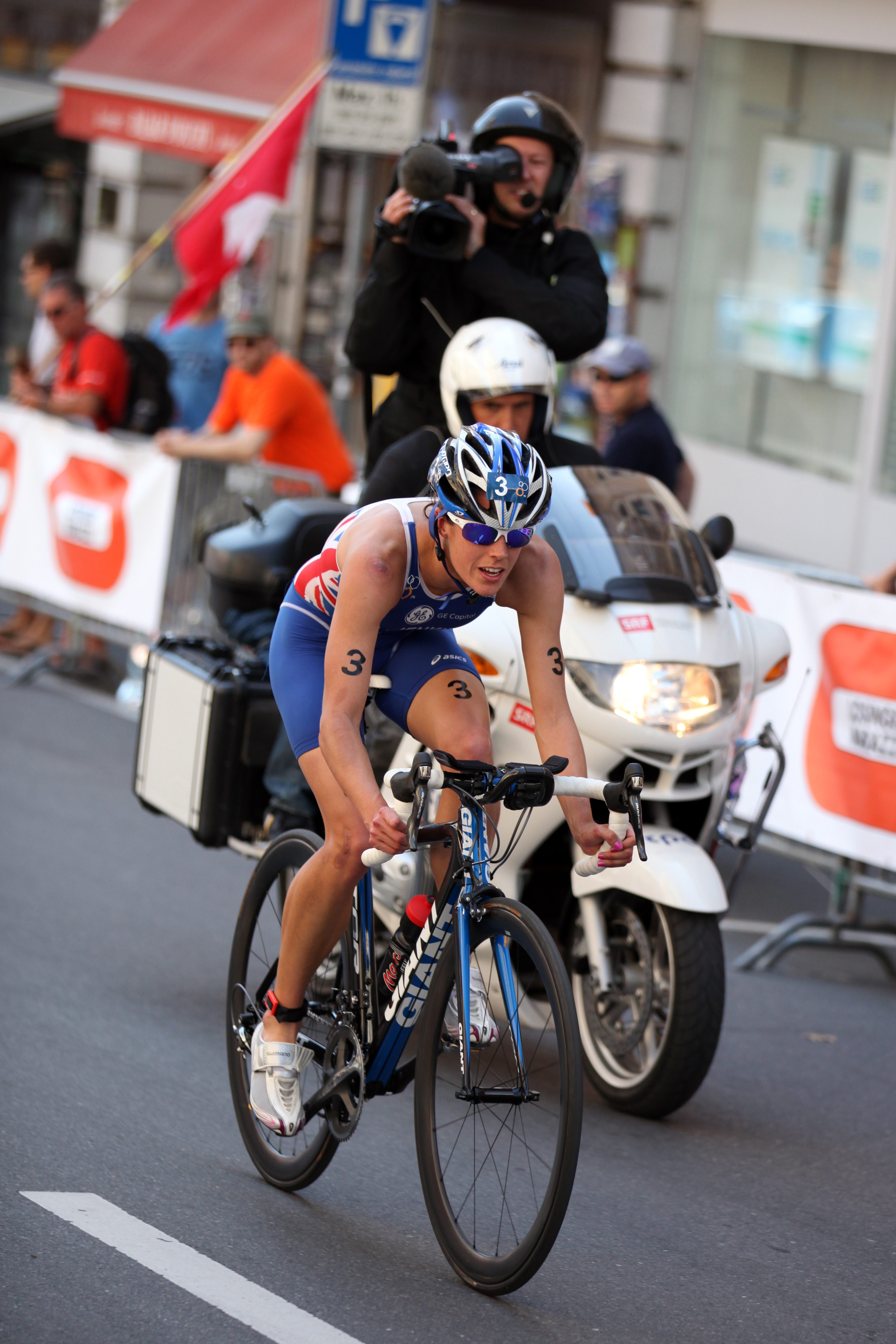 Helen Jenkins at the Triathlon Sprint World Championships in Lausanne.